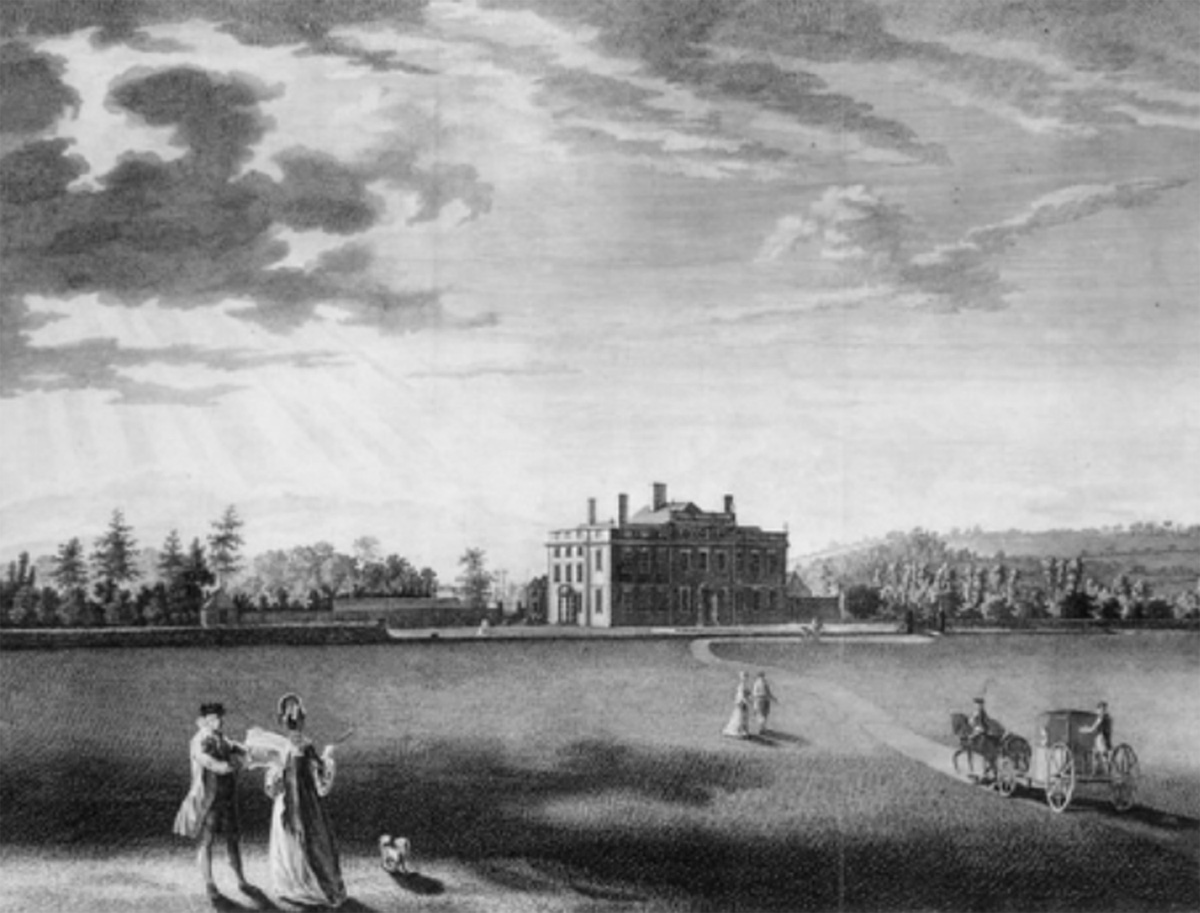 Engraving of Wallsworth Hall, Gloucestershir, 1771.